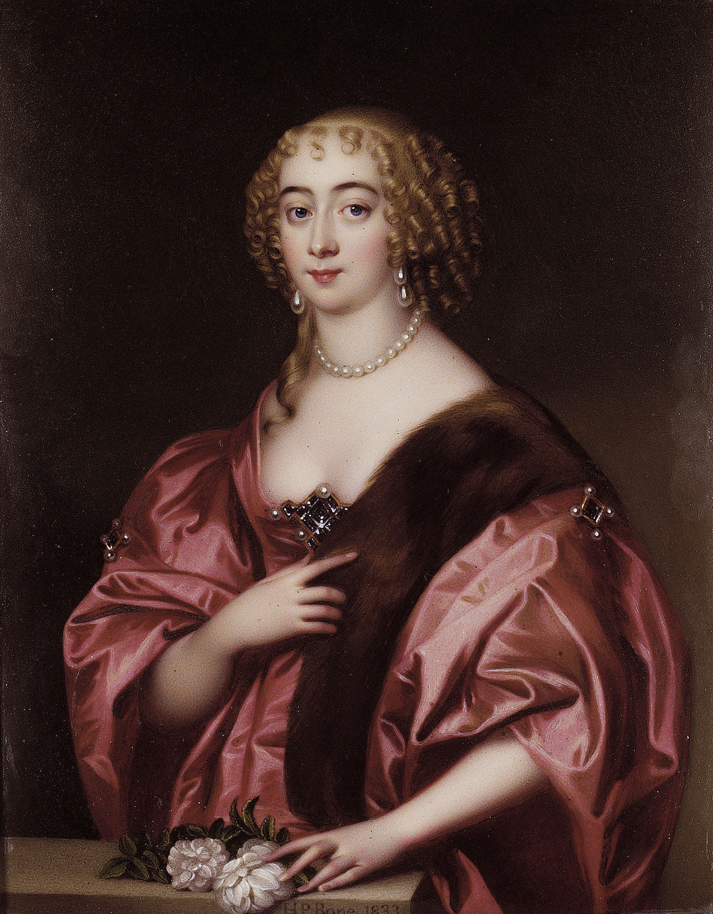 Portrait of Dorothy Sydney, Countess of Sunderland (1617-1684)